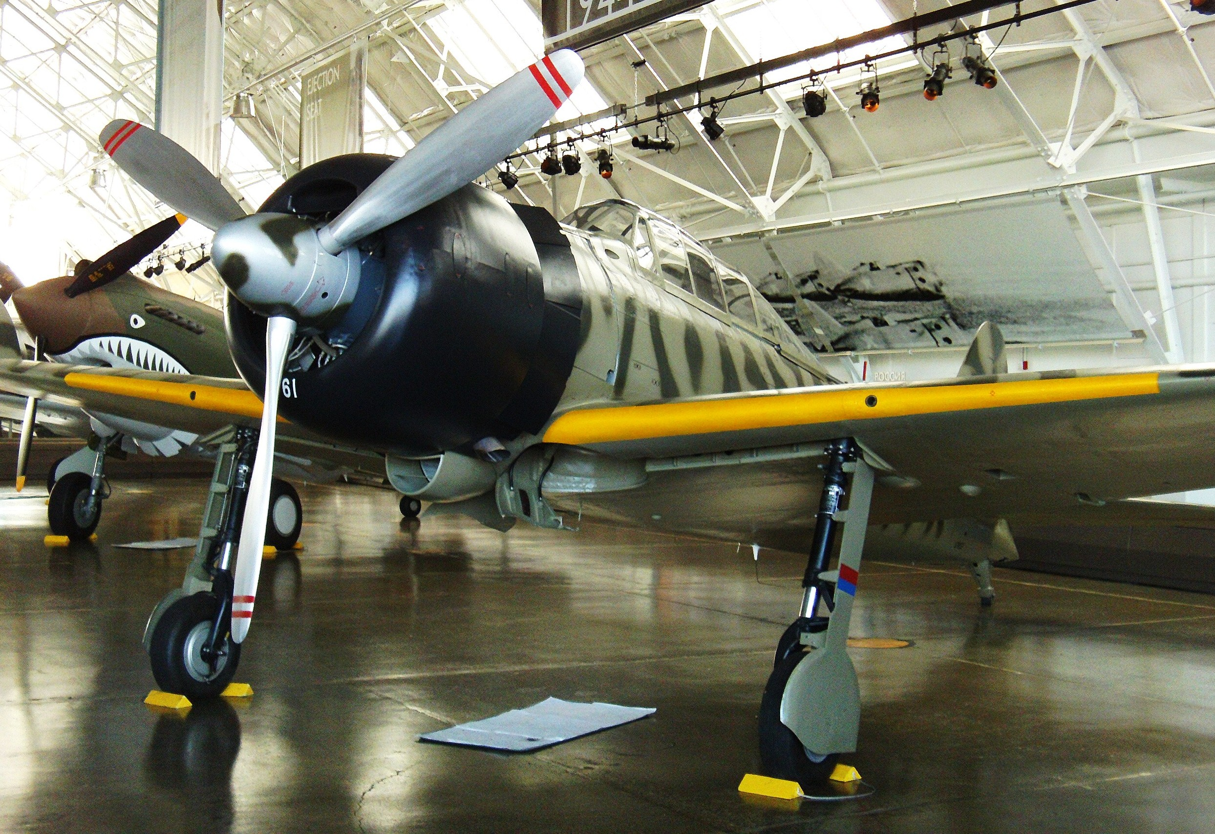 Mitsubishi A6M Zer0 - Paine Field USA (2012) - Front view showing left side and landing gear.